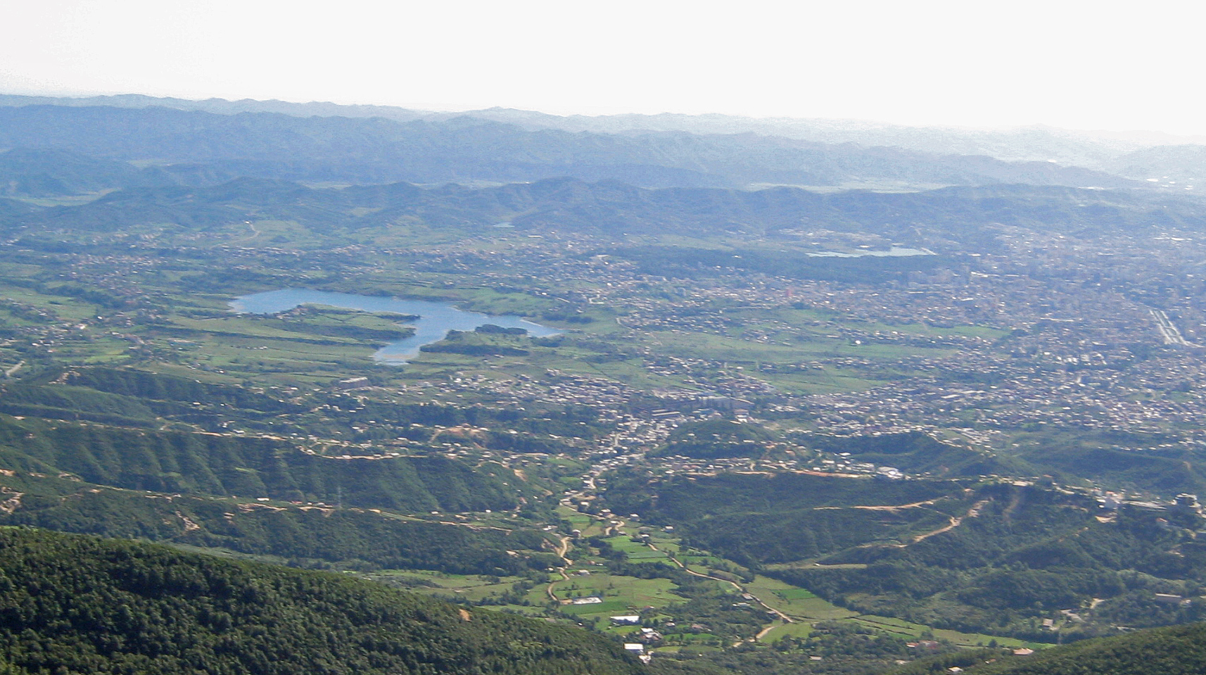 View from Mount Dajti over the southern suburbs of Tirana, Albania. Lake Farka in the center.